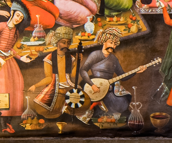 Crop of